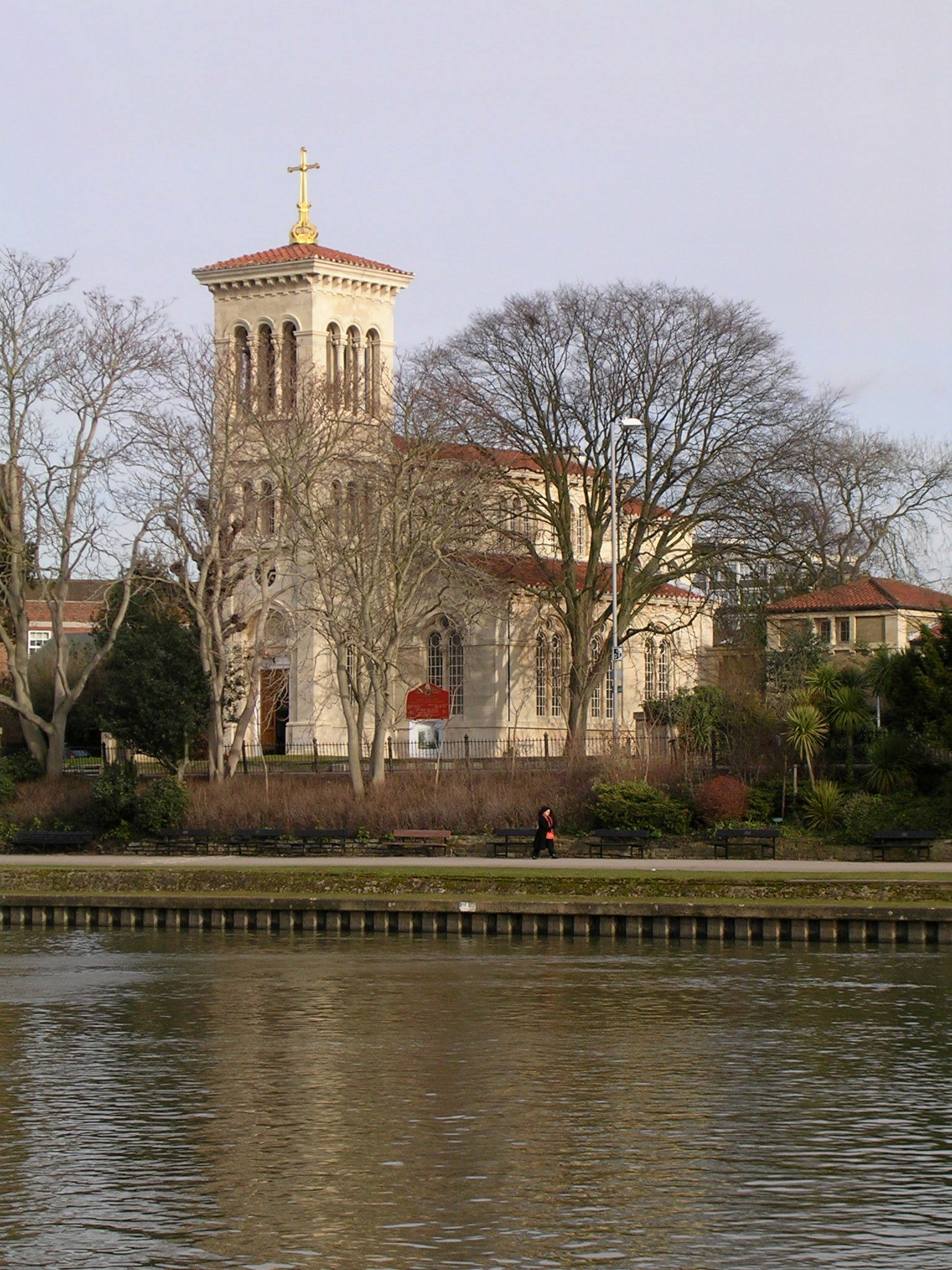 View across the River Thames to the Roman Catholic church of St Raphael, Surbiton, Surrey